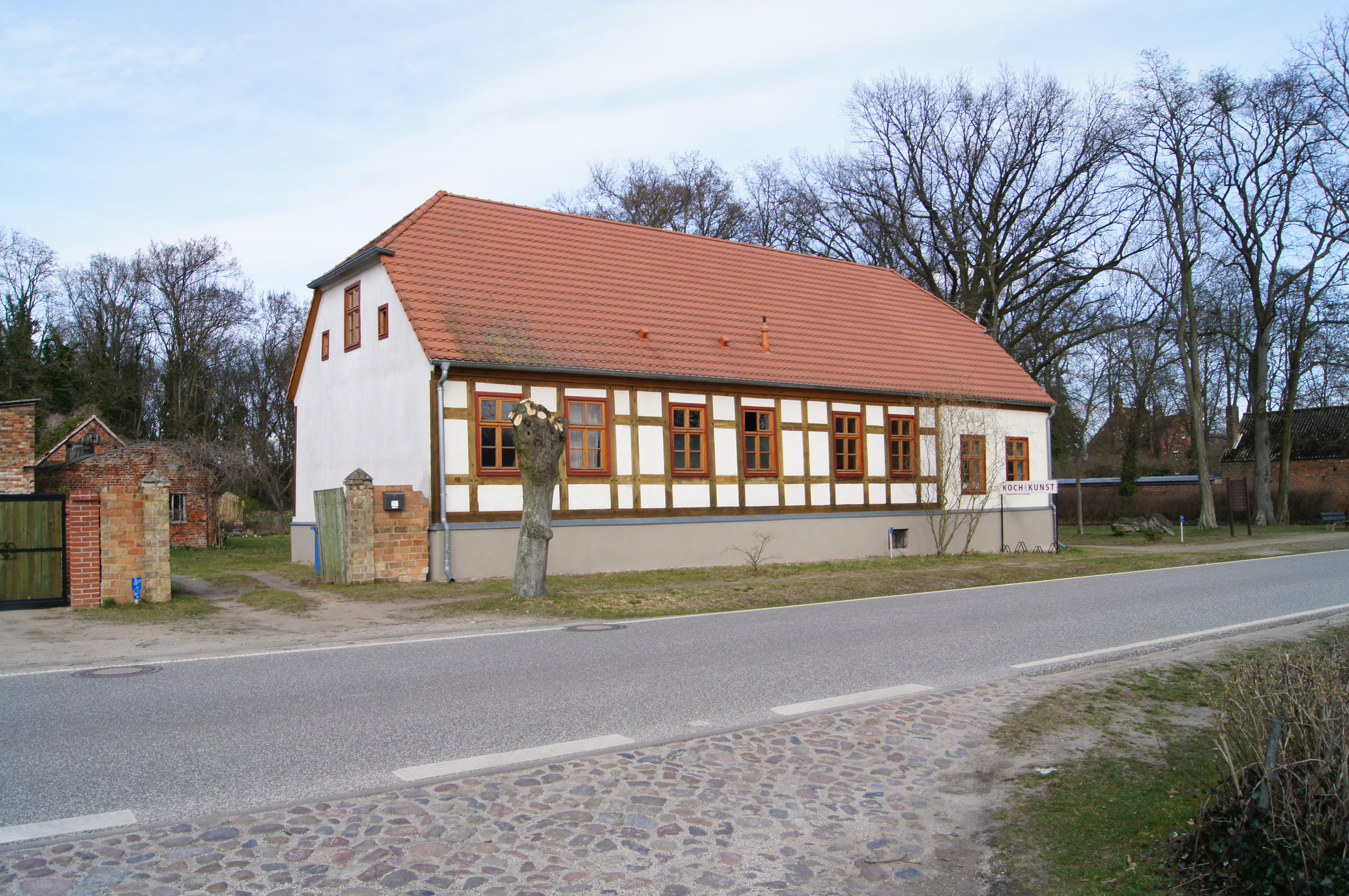 Gallery "Koch und Kunst" at Poststrasse 2 in Gross Neuendorf, Letschin, Brandenburg, Germany